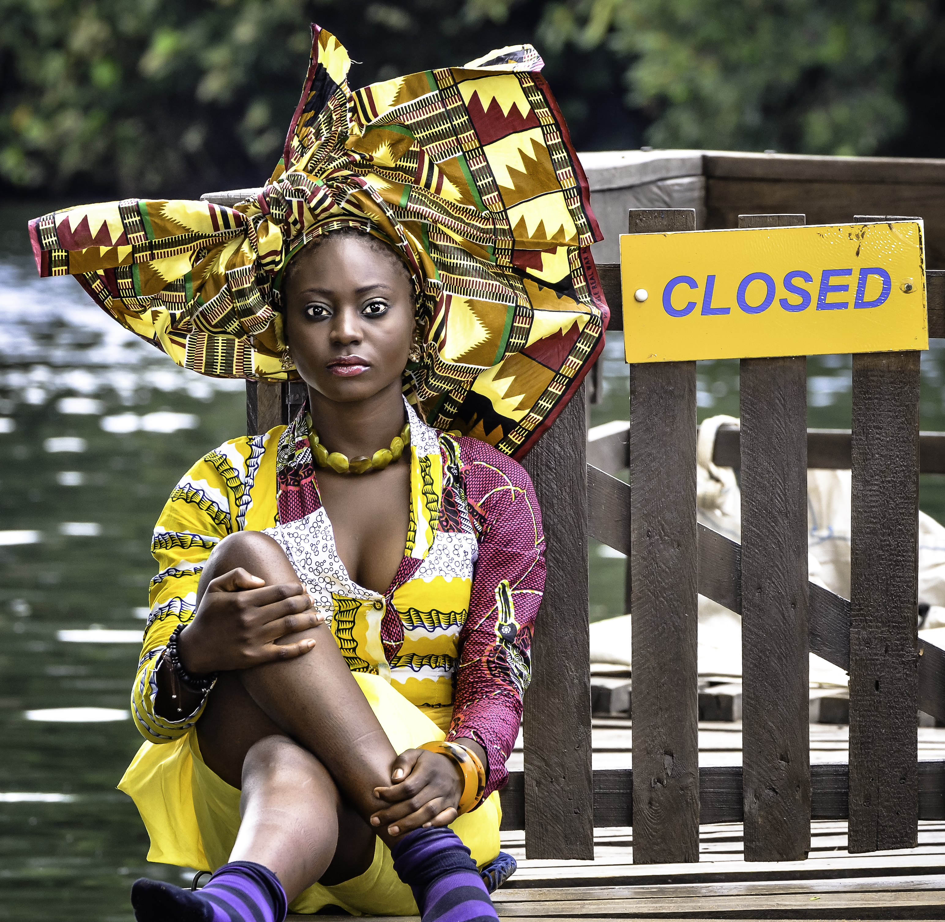 lady in Gele, an african head dress This is an image of Cultural Fashion or Adornment from Ghana